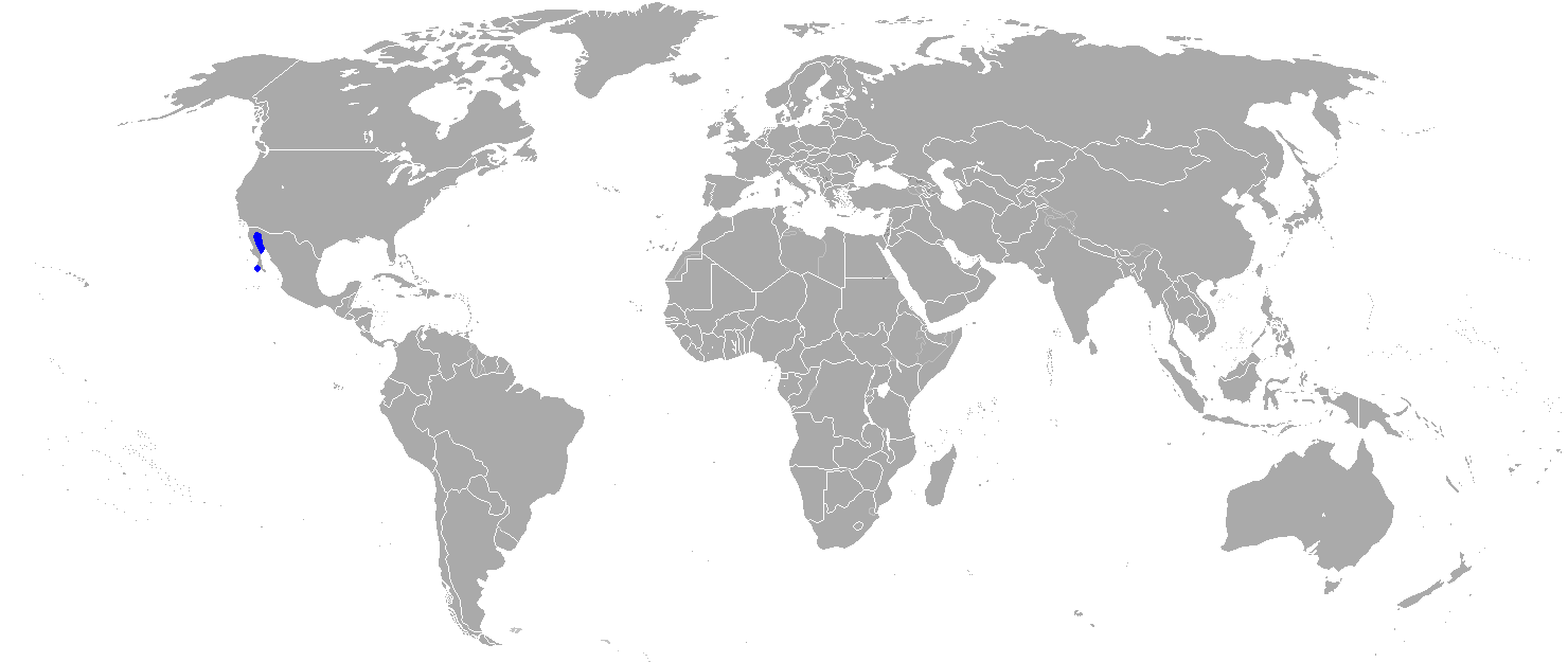 Distribution of the ocellated turbot, pleuronichthys ocellatus, using a political map of the world showing 2008 borders. Based on File:BlankMap-World.png; as it is PD, this is too.